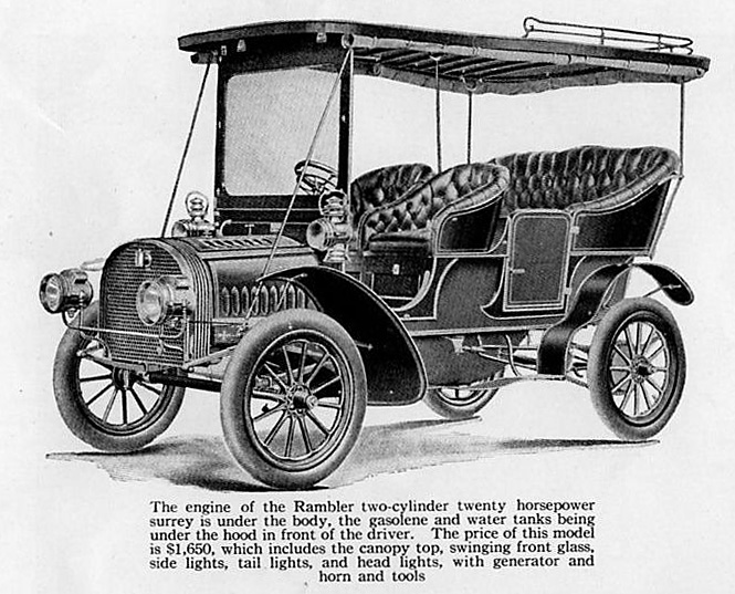 1905 Rambler Type Two Surrey; in Country Life magazine.